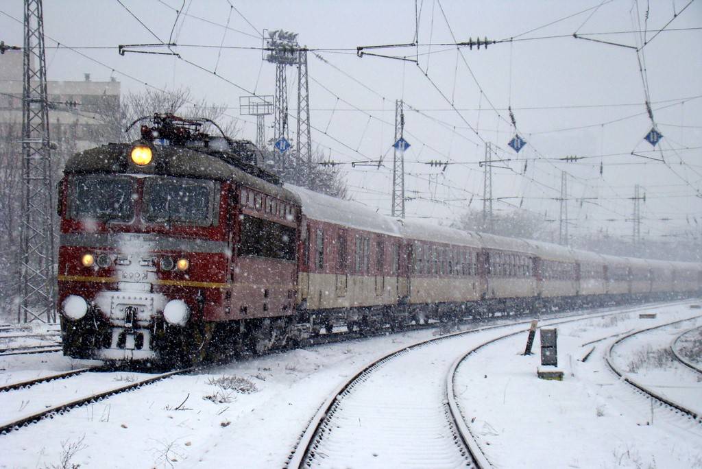 FT 8612 arrives at Plovdiv Railway Station